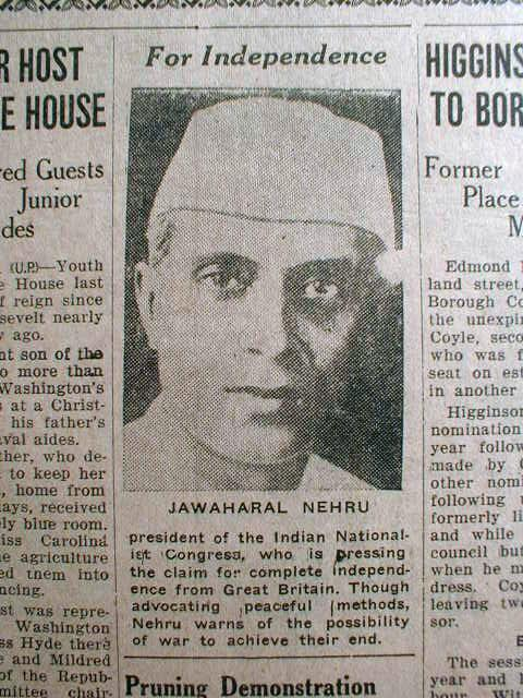 Nehru in 1930; a photo from 'The Evening Sentinel'; *a better view of that press photo* Source: ebay, Sept. 2010